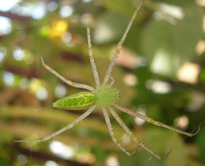 Green lynx spider Peucetia viridana (Stoliczka, 1869) (Family:Oxyopidae). (Determiner: Manju Siliwal manjusiliwal at ) Bangalore January 2006 Photograph by L. Shyamal